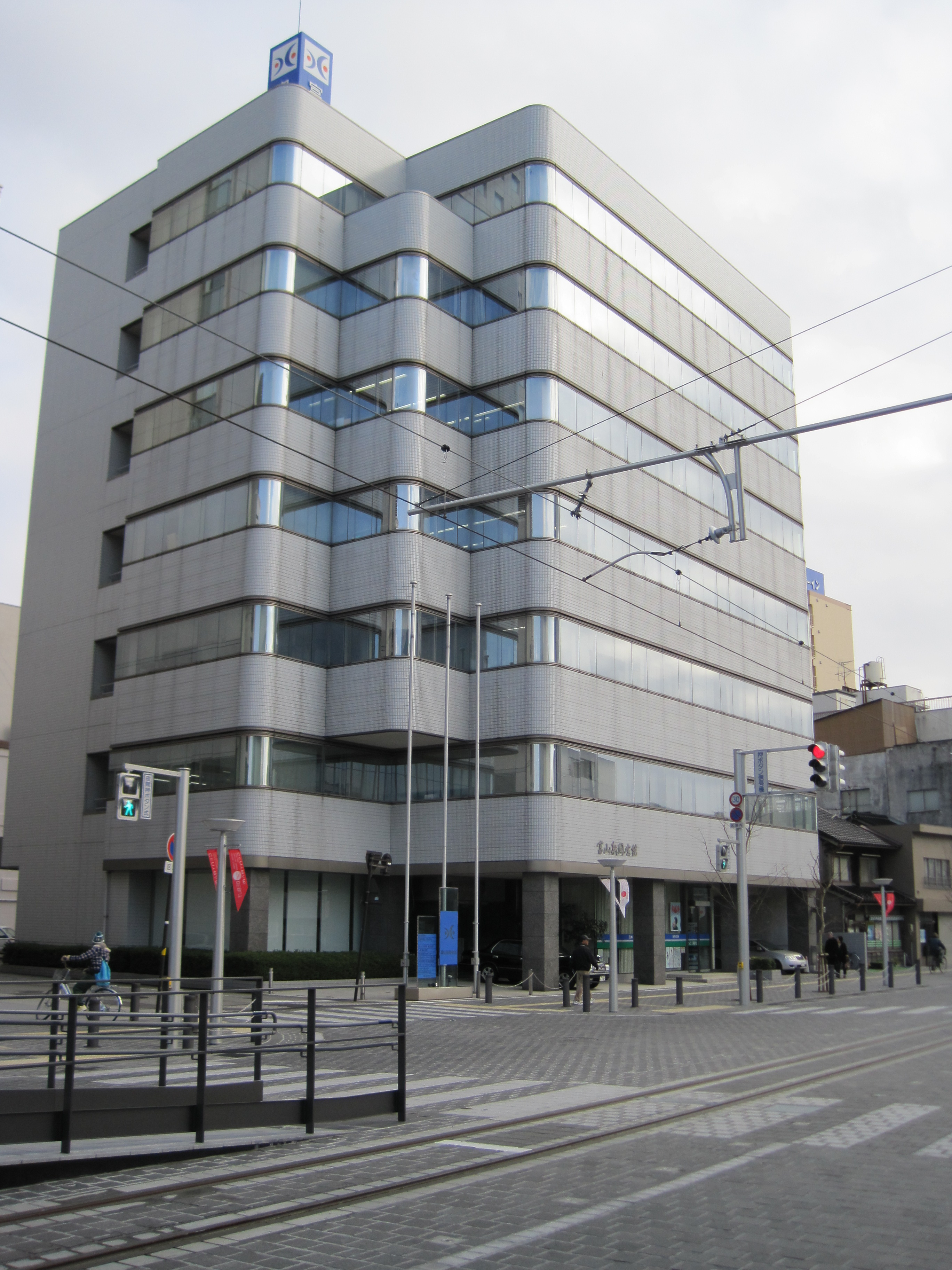 Toyama Shimbun Company(Toyama city, Toyama prefecture)